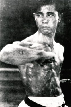 Egami Shigeru practising